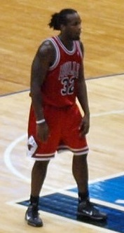 Chris Richard of the Chicago Bulls vs Timberwolves preseason 2009